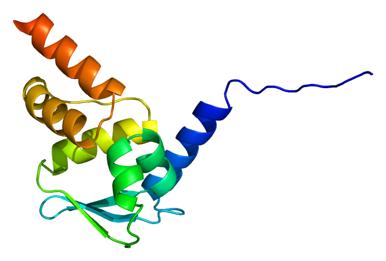 Structure of the ZBTB16 protein. Based on PyMOL rendering of PDB 1buo.